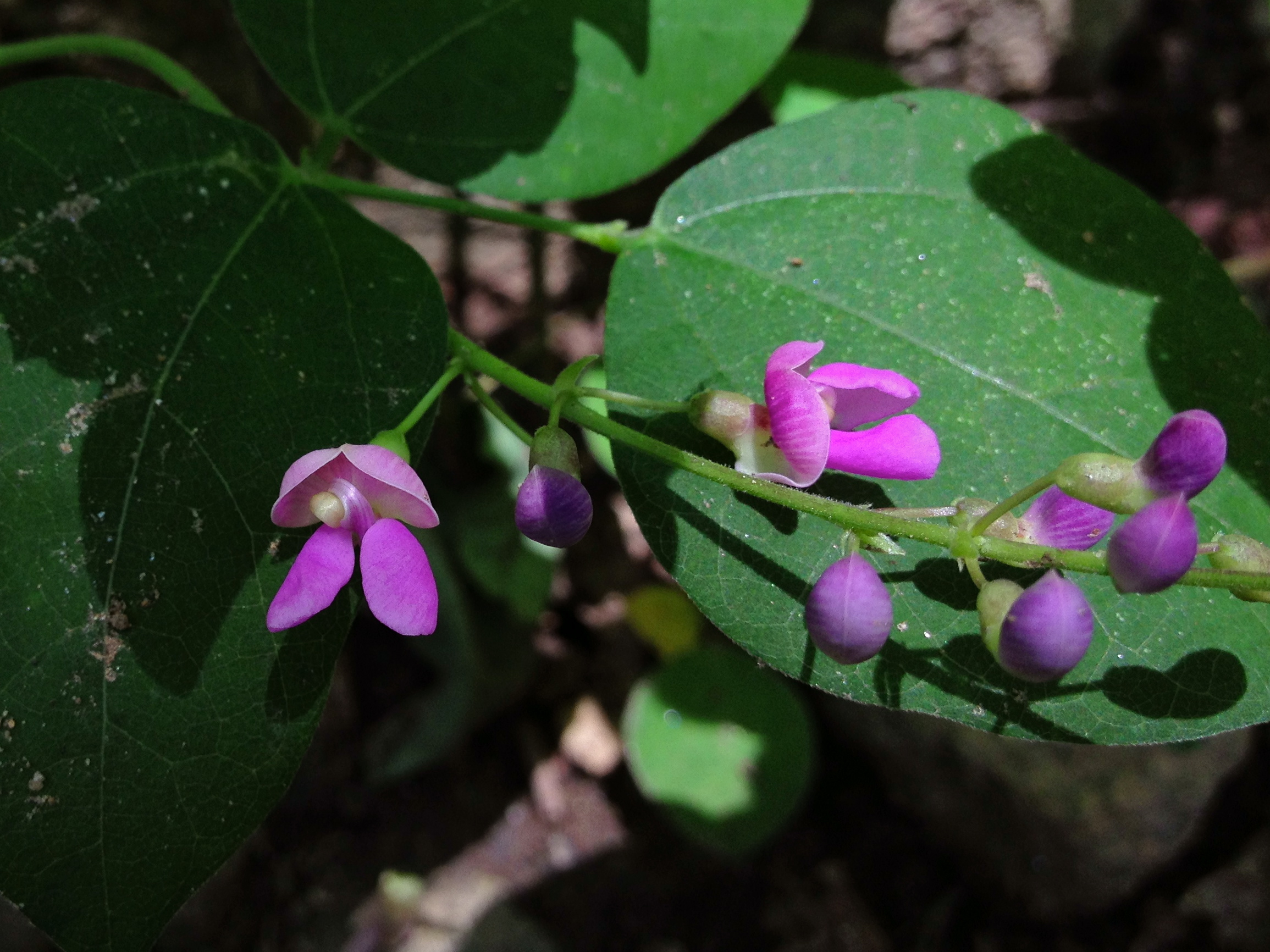 Photo of Phaseolus polystachios in flower. This is a native plant growing wild in Great Falls Park, Fairfax county Virginia, USA. This species is a member of the Fabaceae family.